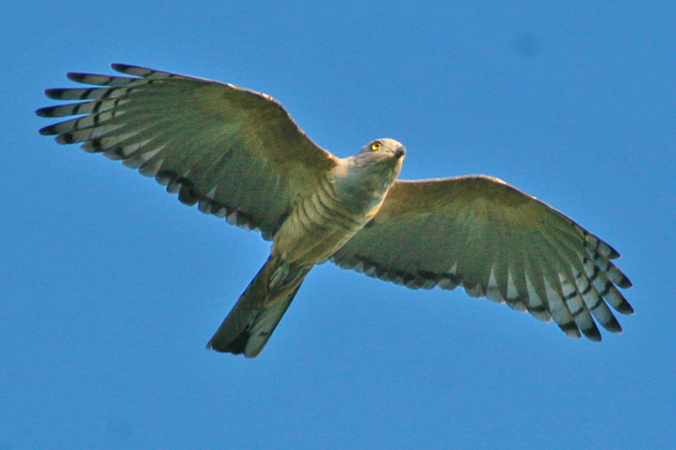 Pacific Baza (Aviceda subcristata) at West Timor